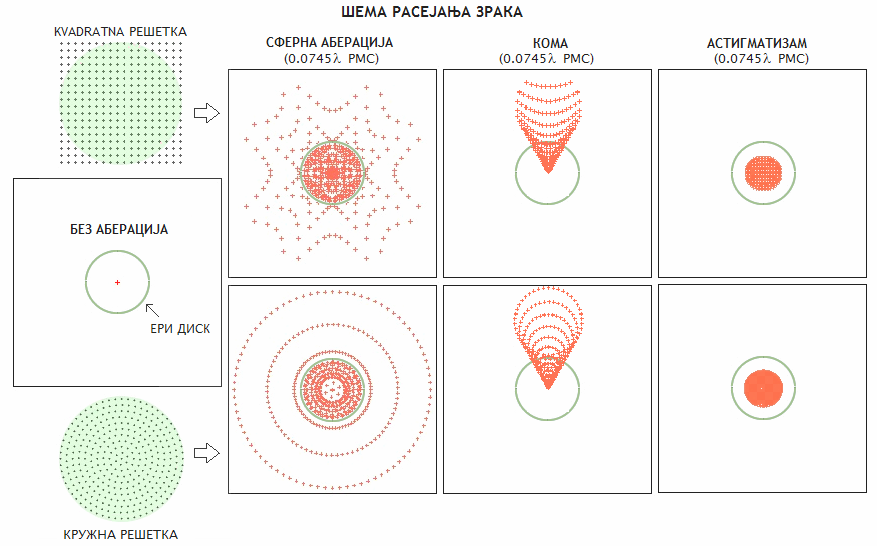 РАСЕЈАЊЕ ЗРАКА УЗРОКОВАНО АБЕРАЦИЈАМА